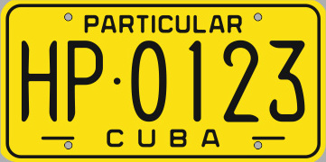 Computer drawing of a 1978 Cuban license plate